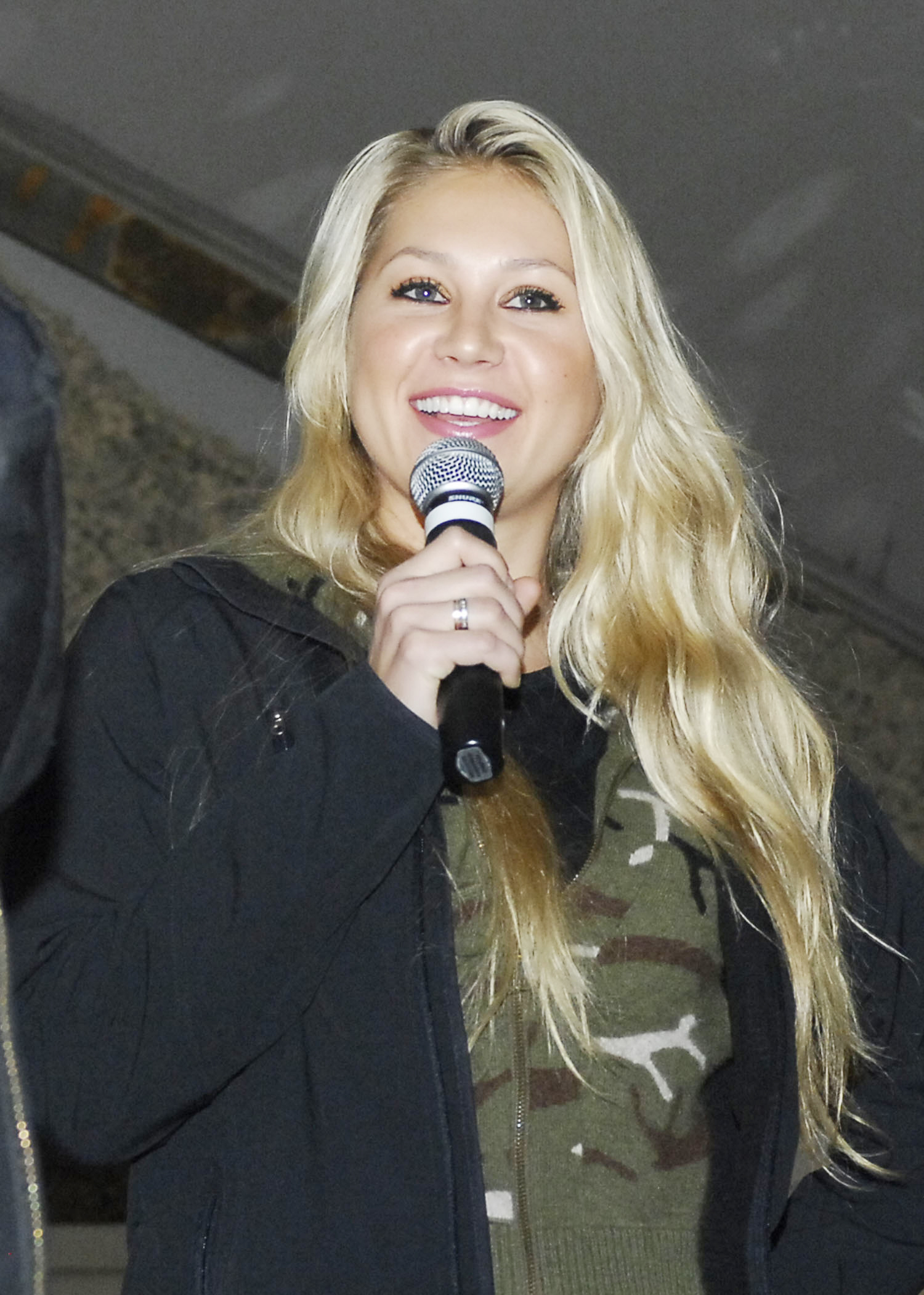 USO brings celebrities to Servicemen and women Anna Kournikova entertains the Airmen, Soldiers, Sailors and Marines at Bagram Air Base, Afghanistan, during a United Service Organization tour Dec. 15, 2009. Ms. Kournikova, Dave Attell, Billy Ray Cyrus, and Nick Bollettieri are featured in a USO tour boosting the morale of deployed servicemen and women. Ms. Kournikova is a tennis pro originally from Russia and now calls Miami home.